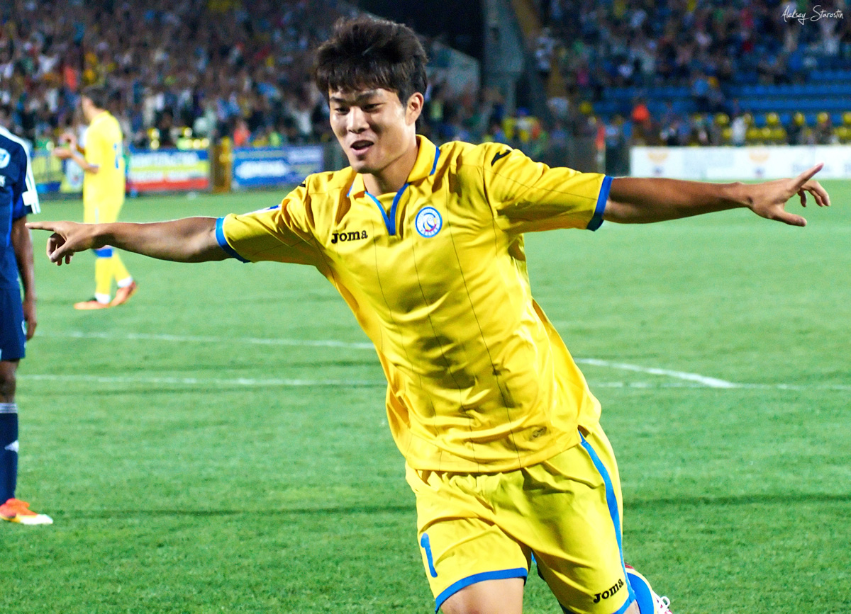 Yoo Byung-SooAugust 19, 2013 as part of FC Rostov in match of the Russian football championship of 2013